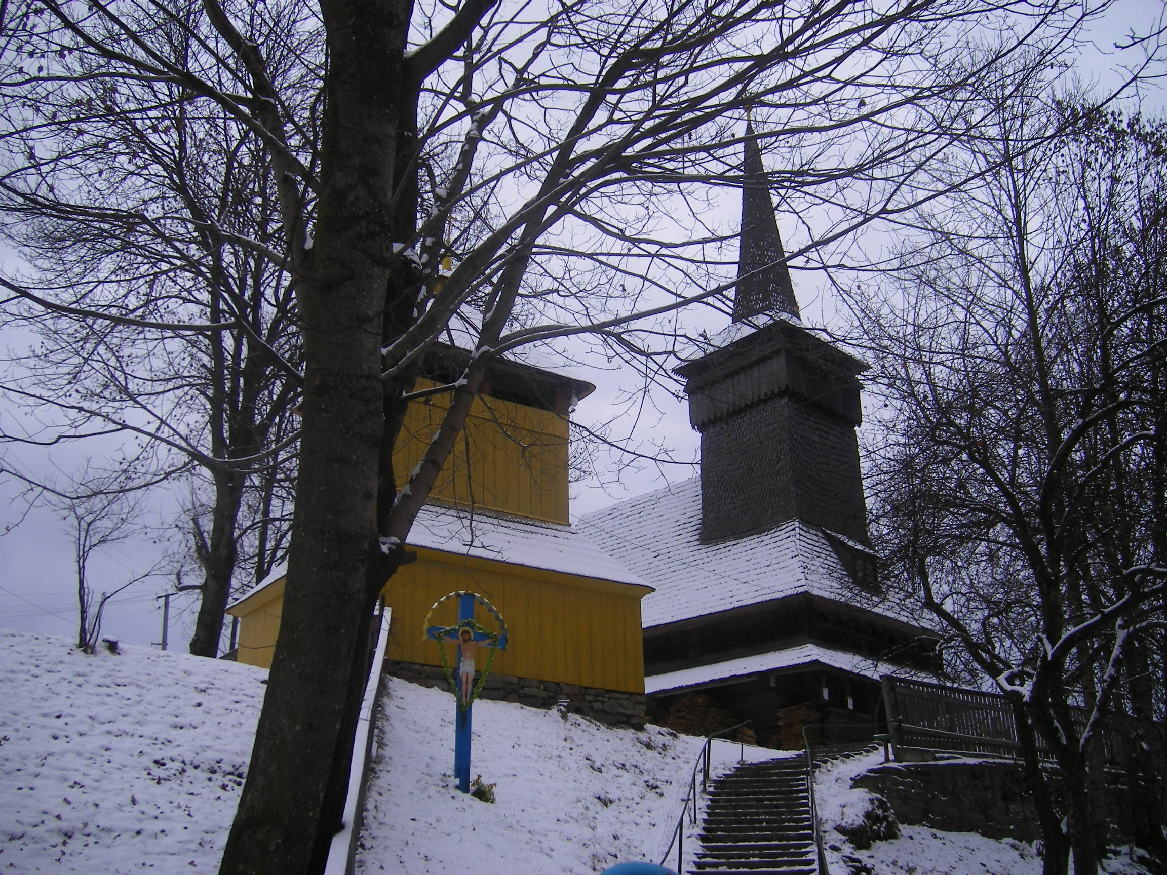 Negrovets, G. Catholic Wooden Church